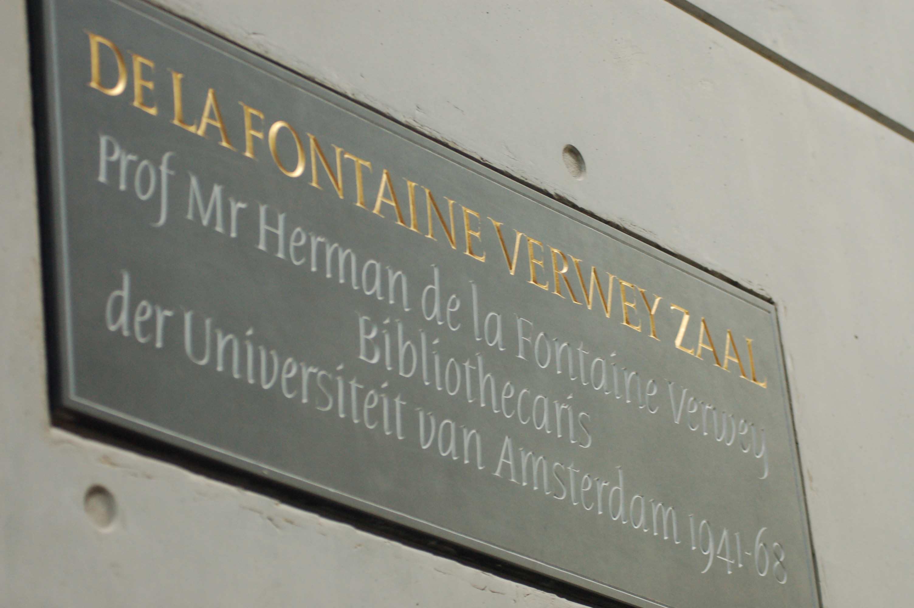 Plaque in University Library Amsterdam, the Netherlands. Text reads: "De la Fontaine Verweyzaal / Prof Mr Herman de la Fontaine Verwey / Bibliothecaris der Universiteit van Amsterdam 1941-68"